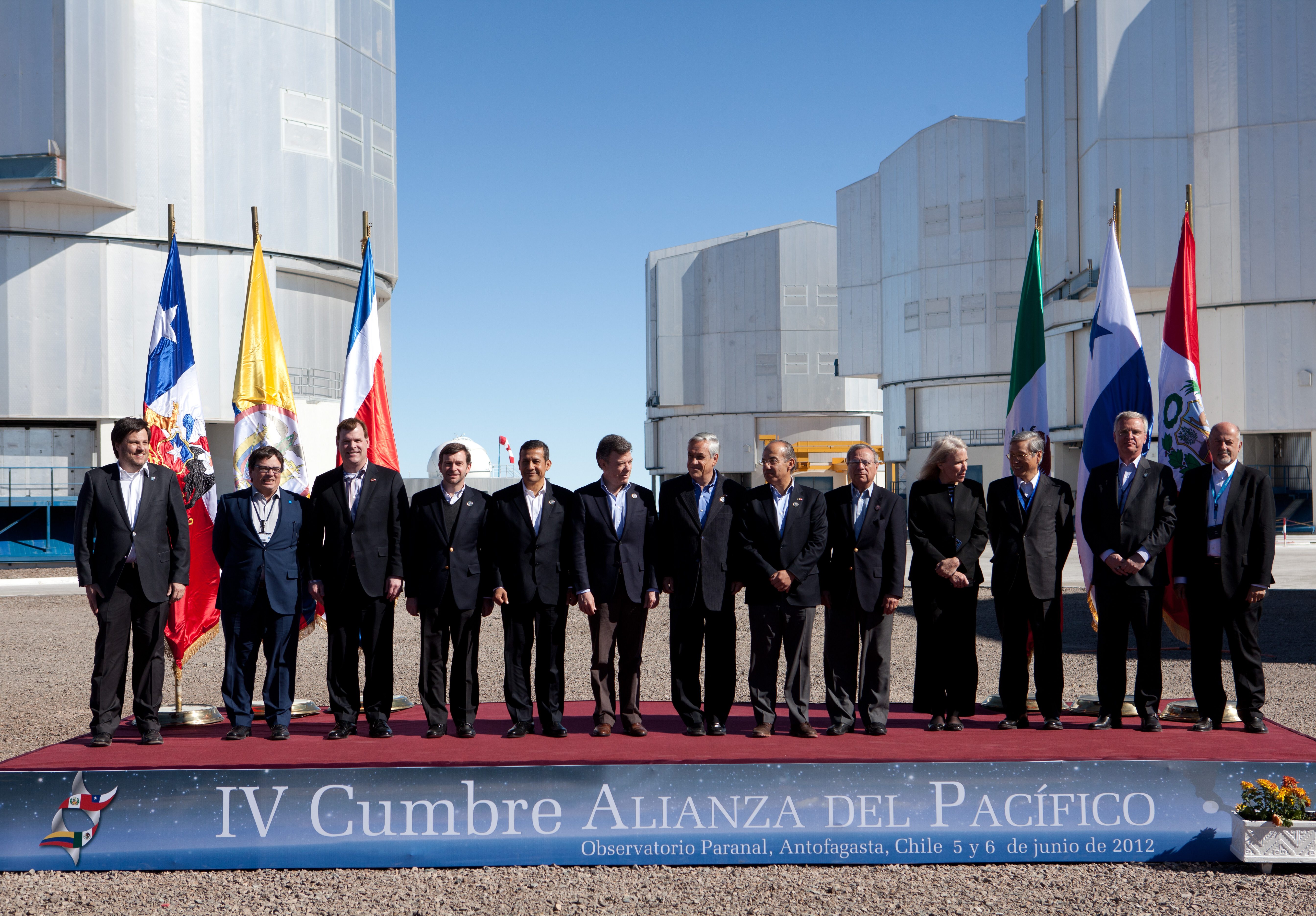 The presidents of Chile, Colombia, Mexico and Peru met on 6 June 2012 at ESO’s Paranal Observatory in the Atacama Desert of Chile, seeing first hand the state-of-the-art telescopes and technology of ESO’s flagship site. The presidents gathered at Paranal for the fourth Summit of the Pacific Alliance, at which the Alliance’s Framework Agreement was ratified. In this official photograph, taken on the impressive platform of ESO’s Very Large Telescope on Cerro Paranal, are (from left to right): Andreas Kaufer, Director of the Observatory; John Baird, Minister of Foreign Affairs of Canada; Francisco Álvarez De Soto, Vice Minister of Foreign Affairs of Panama; President Ollanta Humala of Peru; President Juan Manuel Santos of Colombia; President Sebastián Piñera of Chile; President Felipe Calderón of Mexico; José Enrique Castillo, Minister of Foreign Affairs of Costa Rica; Virginia Greville, Australian Ambassador to Chile; Hidenori Murakami, Japanese Ambassador to Chile; Tim de Zeeuw, the Director General of ESO and Massimo Tarenghi, ESO’s Representative in Chile.